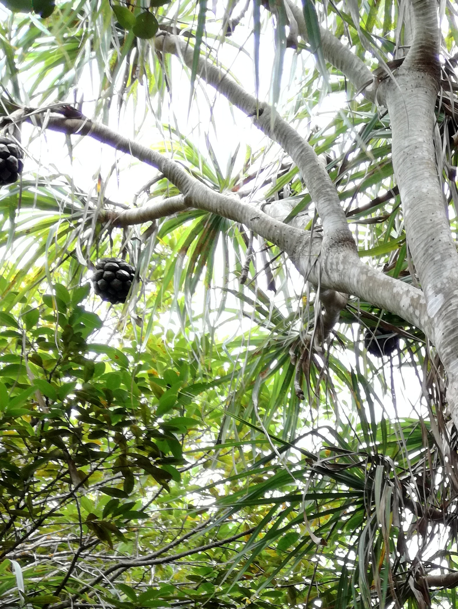 Pandanus tenuifolius fruits - Grande Montagne